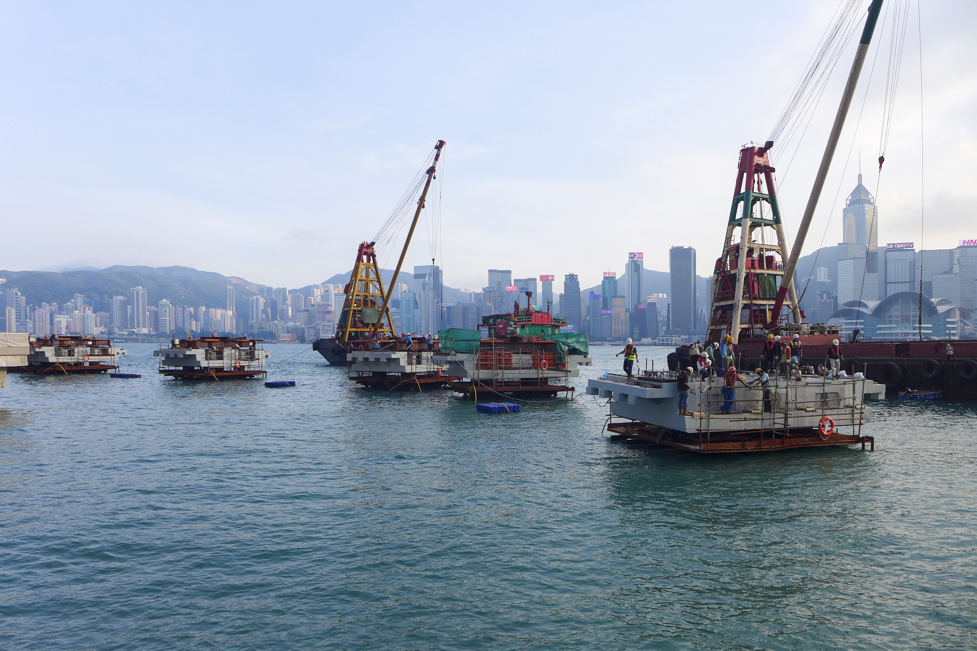 Avenue of Stars redevelopment site